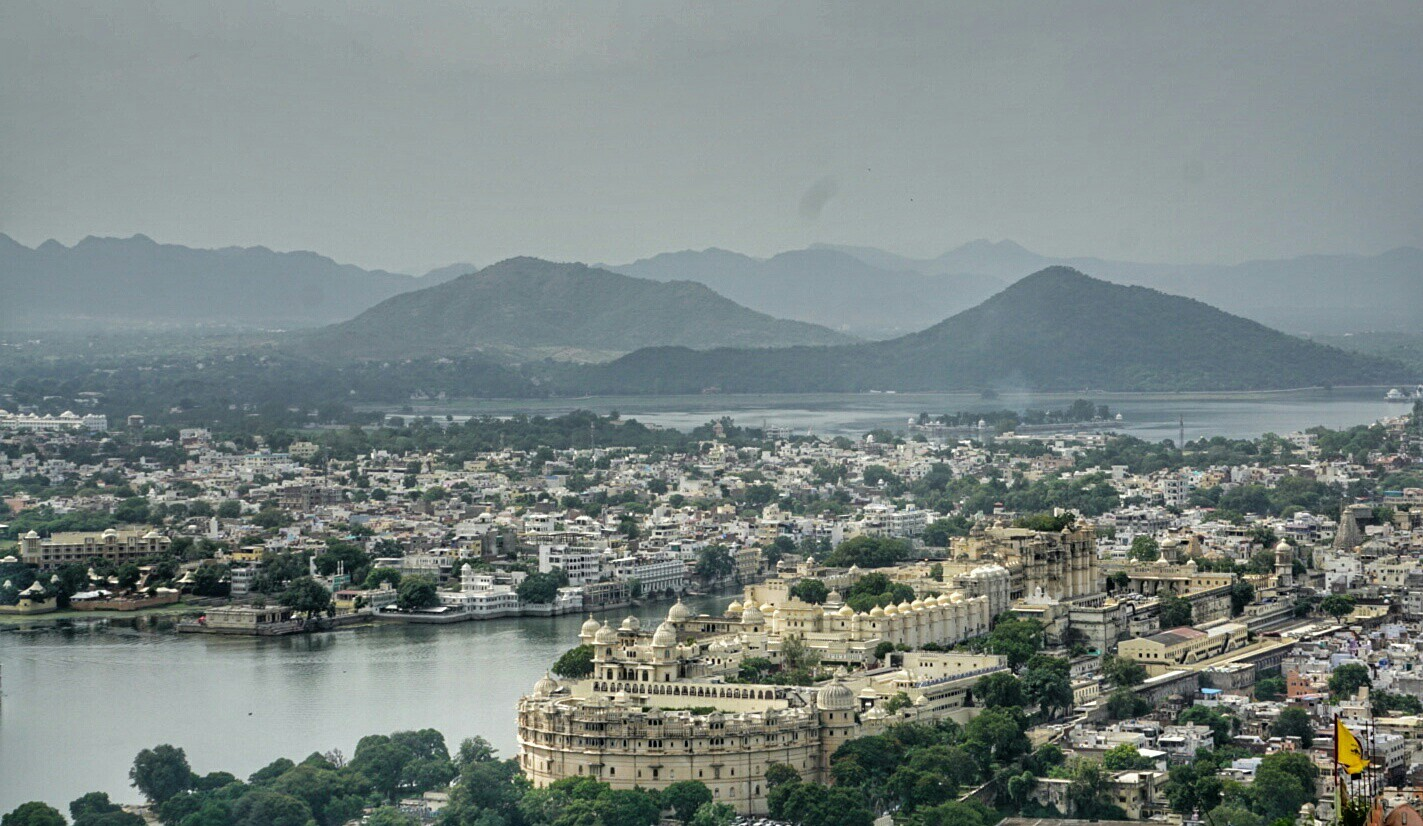 Udaipur's Landscape during Monsoon